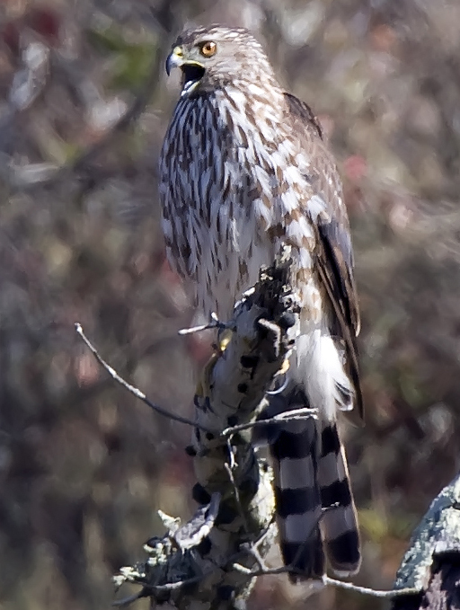 Juvenile Cooper's Hawk (Accipiter cooperii). Dairy Creek Road, El Chorro Park, San Luis Obispo, California. Not the best shot, but my only capture thus far.